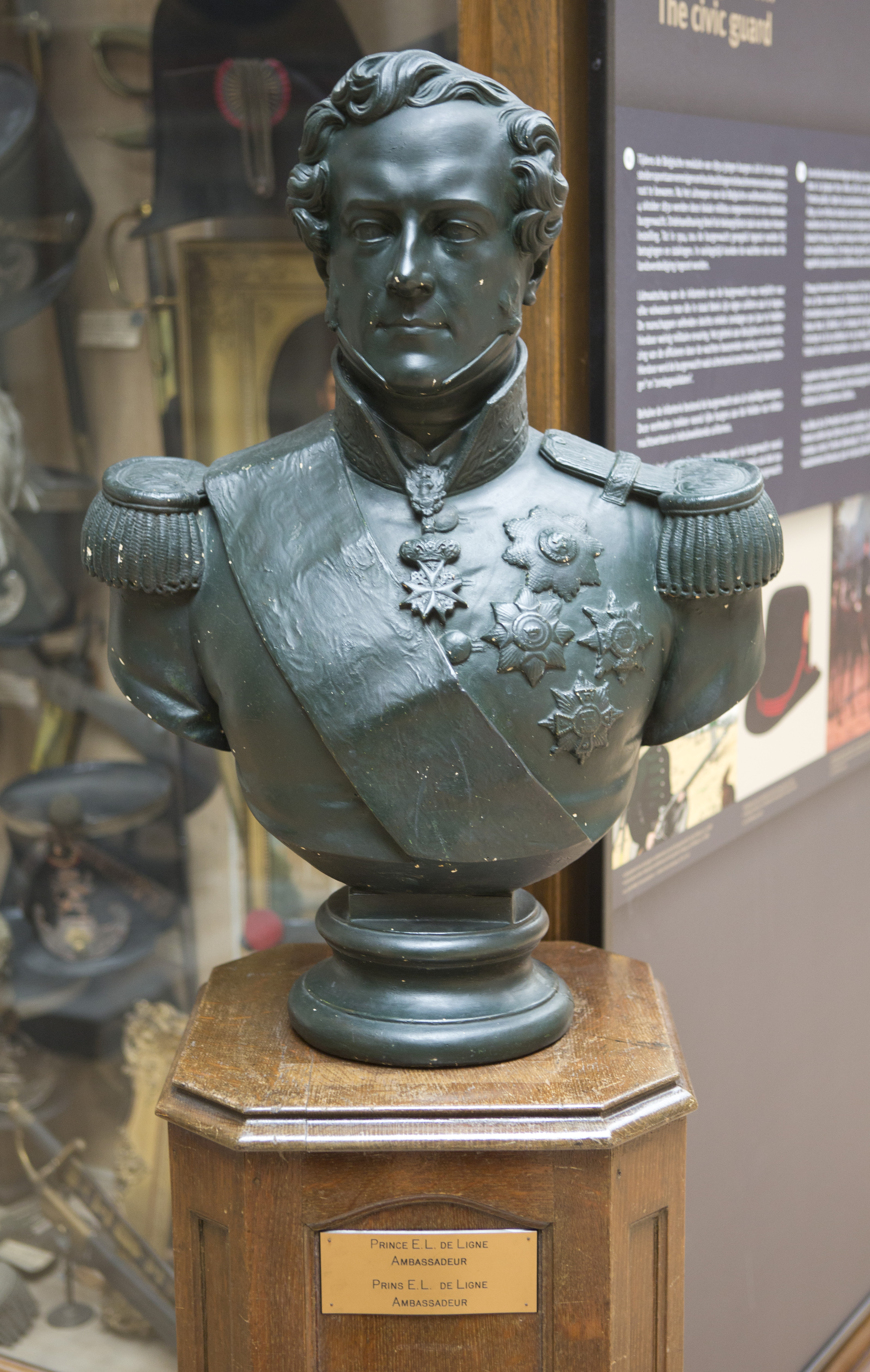 This is a file created at the museum: Royal Museum of the Armed Forces and of Military History in Brussels